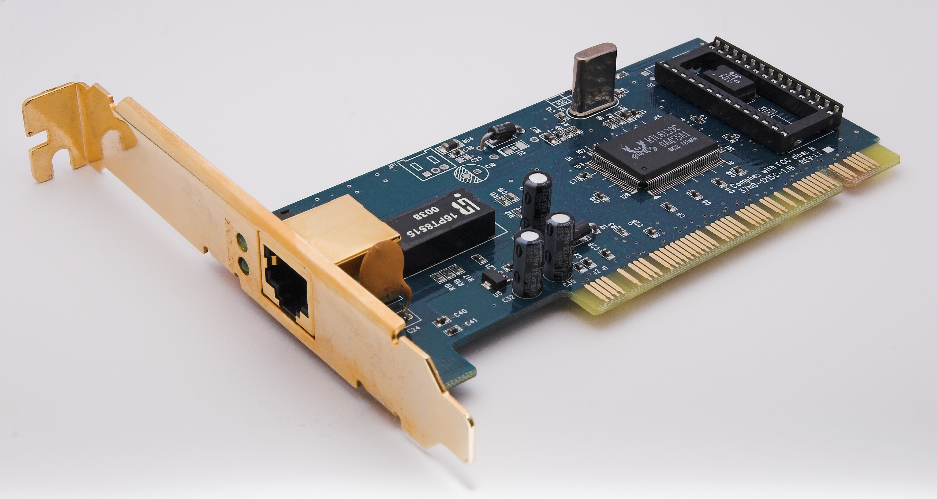 100MBit Ethernet NIC PCI card